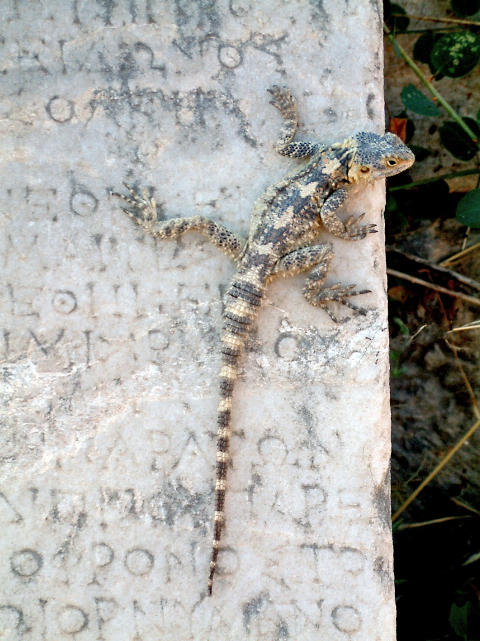 Laudakia stellio at the temple of Apollo in Didim, Turkey